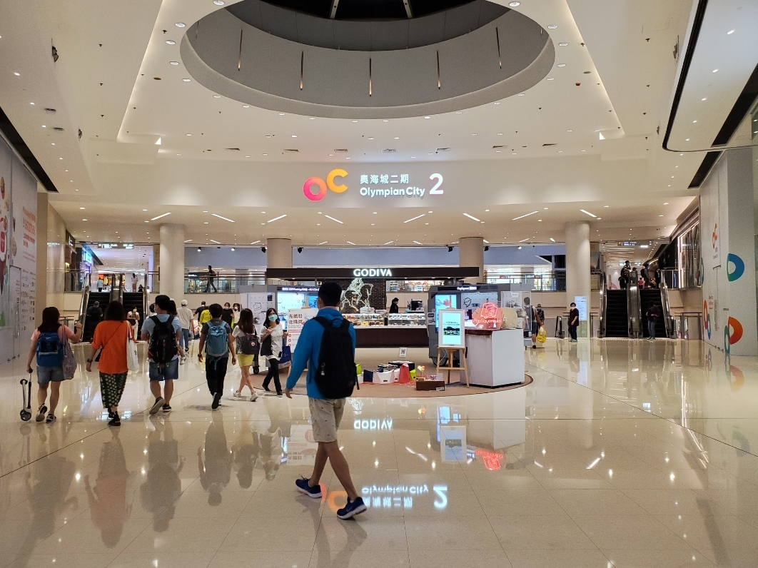 OLY to OPC2 Entrance